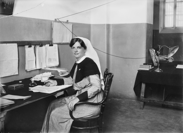 Portrait of Matron Grace Wilson RRC in her office at Abbassia in Egypt